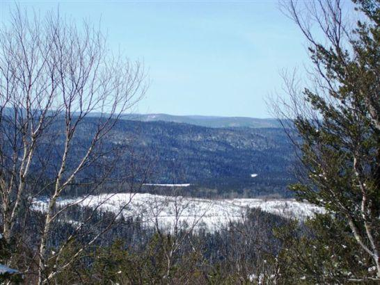 View of Parent from mountain